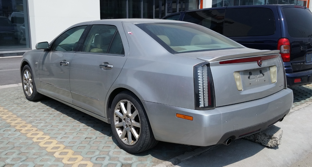 Cadillac SLS photographed in Shanghai, China.